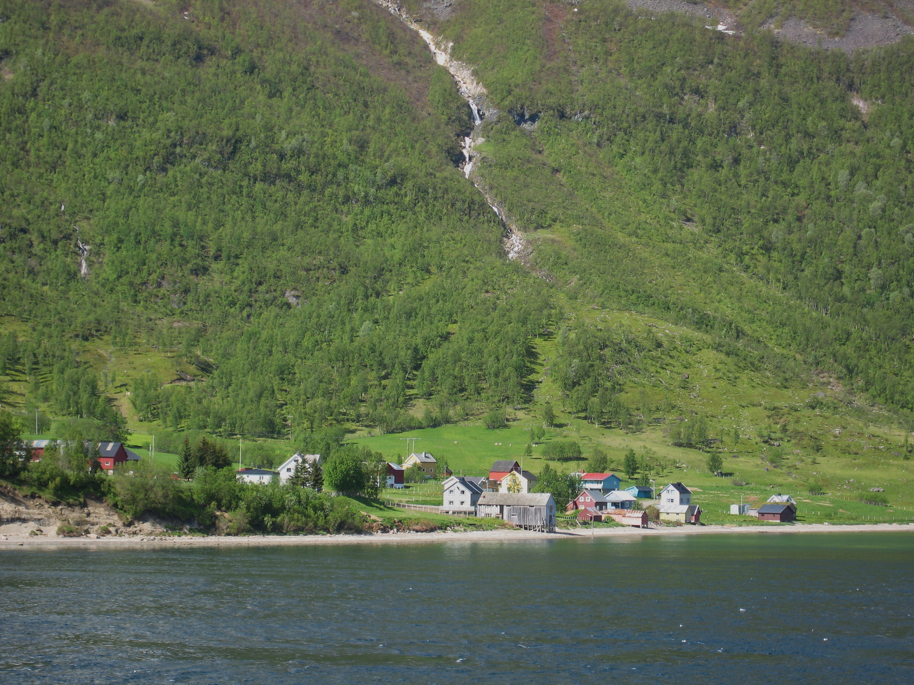 The village Skarmunken in Tromsø municipality, Norway